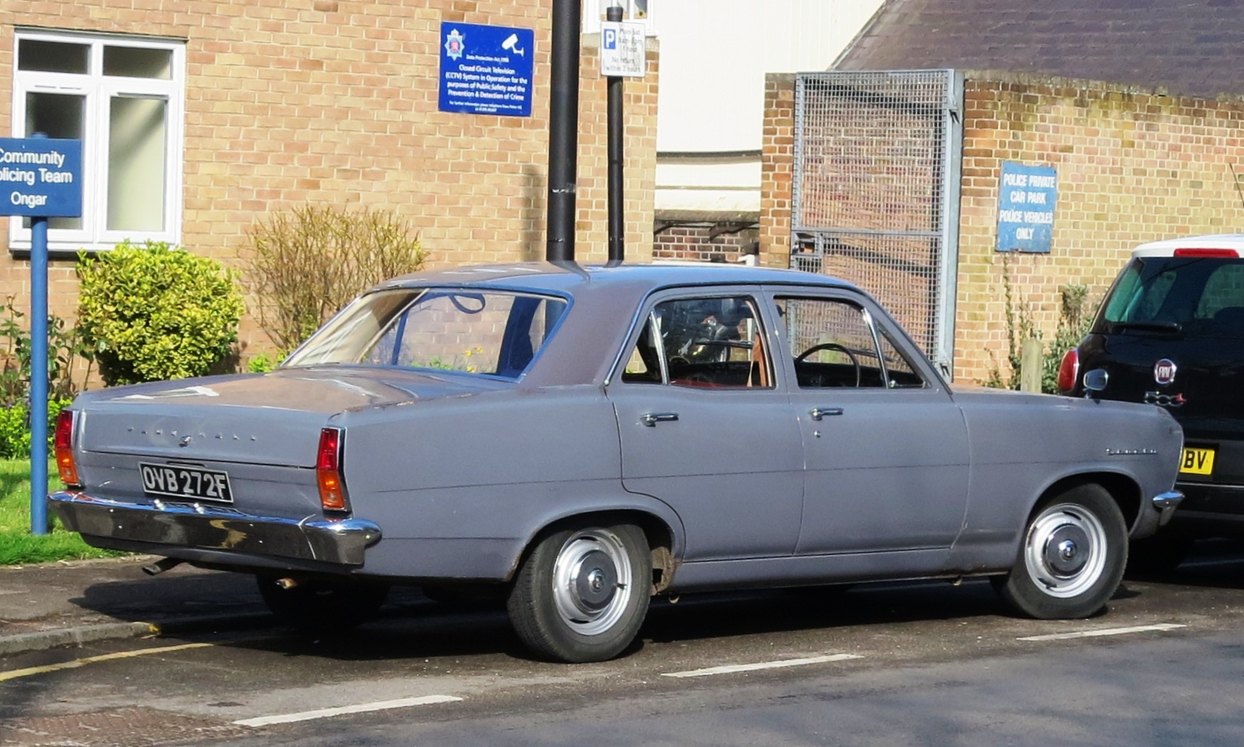 Vauxhall Cresta PC (1967) outside former police (aka PC) station (2016) rear three quarters